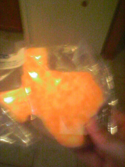 Texas shaped Colby cheese.